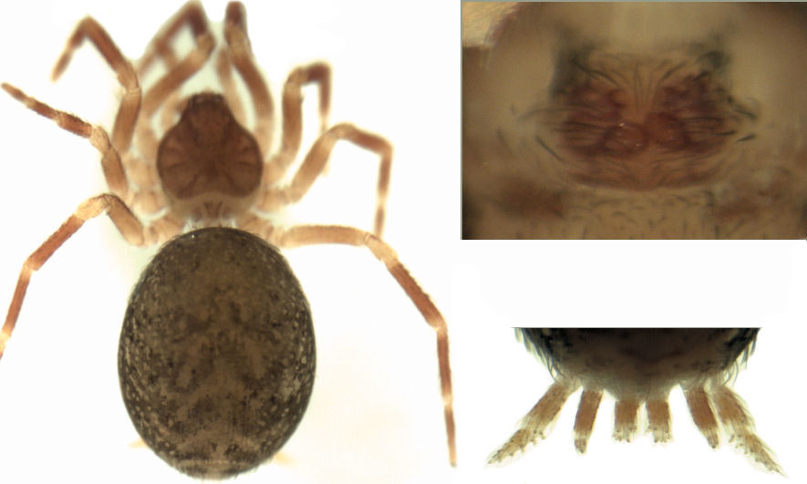 adult female hahniid